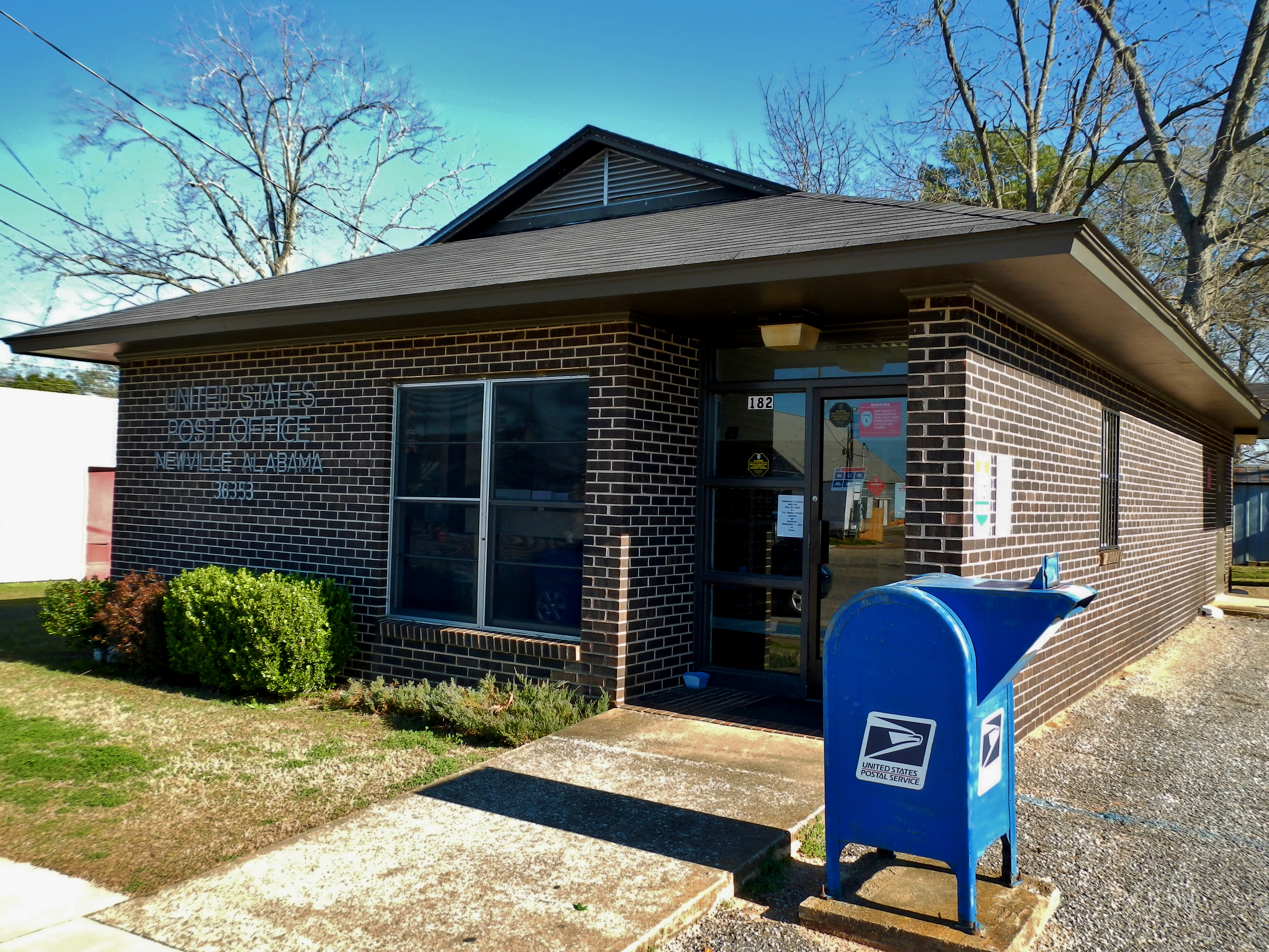 This is a photograph of the Newville, Alabama Post Office (ZIP code: 36353).